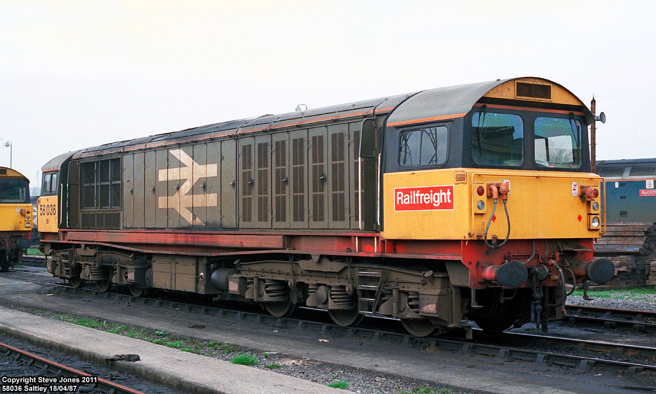 58036 at Saltley on 18/04/87.Scanned from a Kodacolor Gold 100 colour negative.